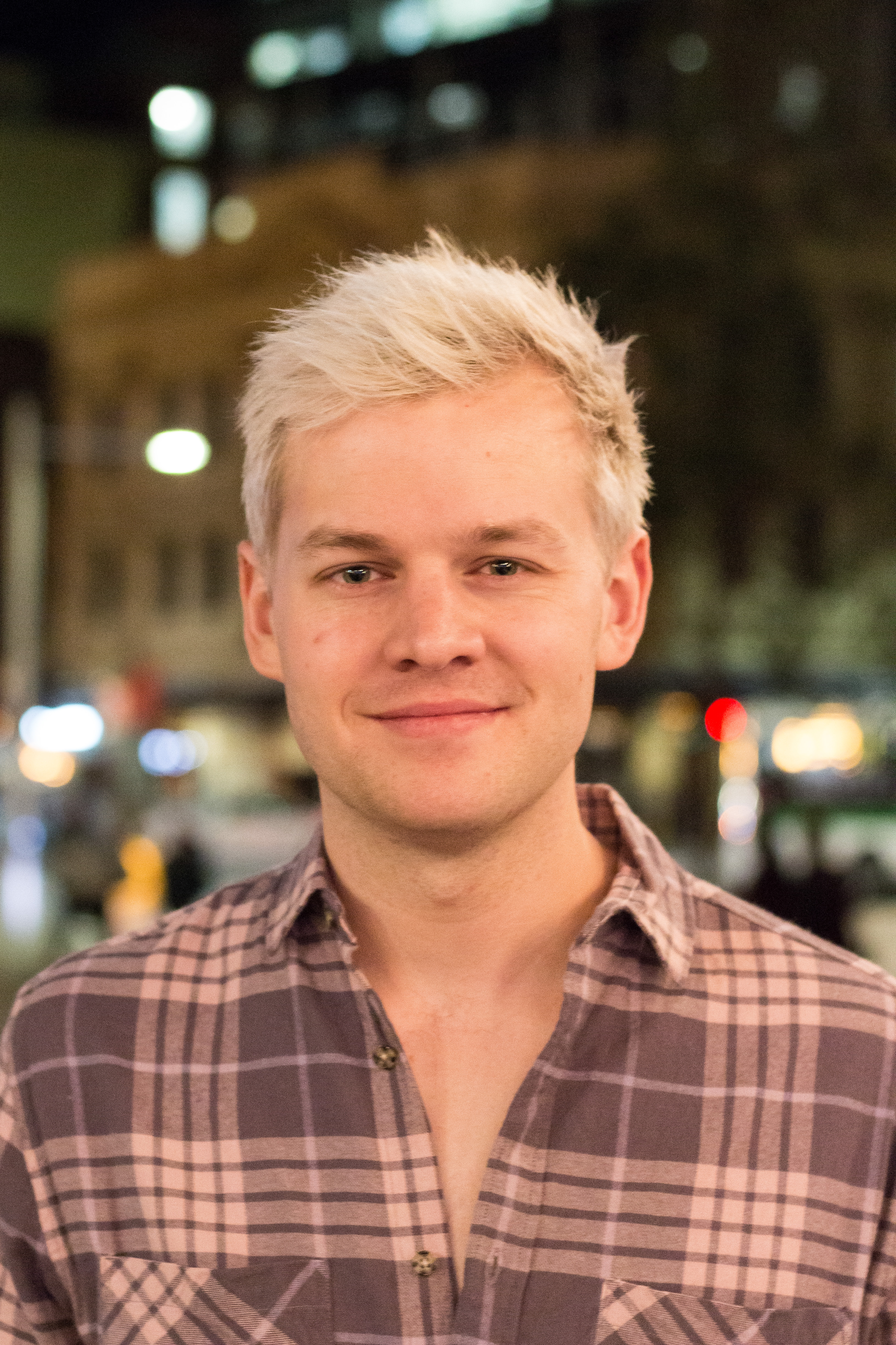 Joel Creasey shortly after his set at the Winter Fest Dome at Yagan Square in Perth